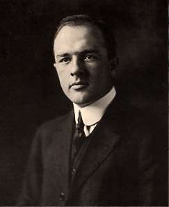 Depicted person: Edward S. Jordan – American automotive pioneer